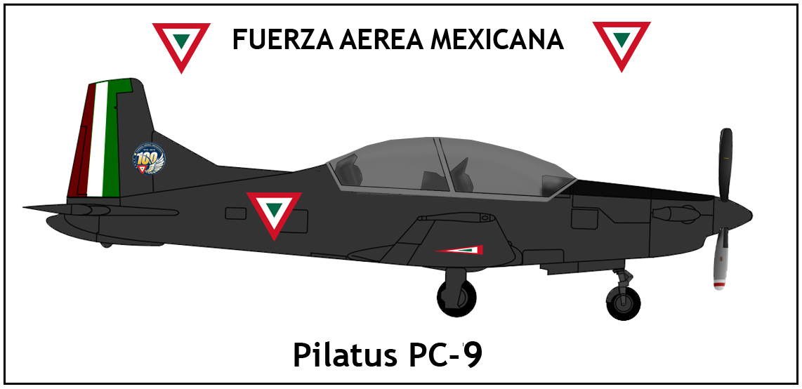 Pilatus pc9 fam